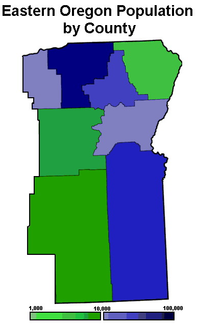 Modified image, originally created by Brian Zablocky using Fireworks MX 2004 and data from the Portland State University Population Research Center. The original graphic was Image:Map of Oregon highlighting Crook County.svg by User:Dbenbenn